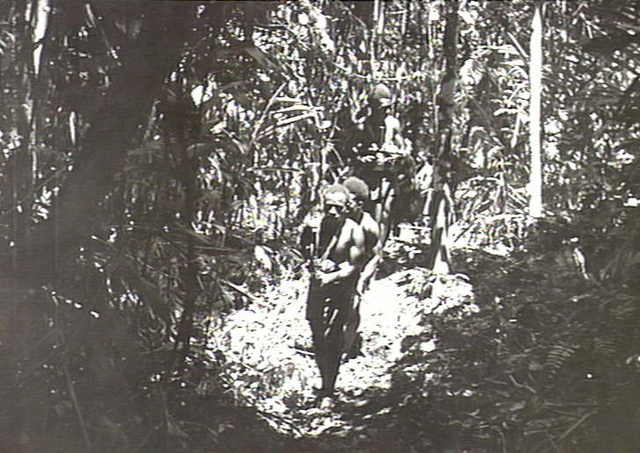 Troops from the 1st New Guinea Battalion on patrol in New Britain, 7 February 1945, during World War II.